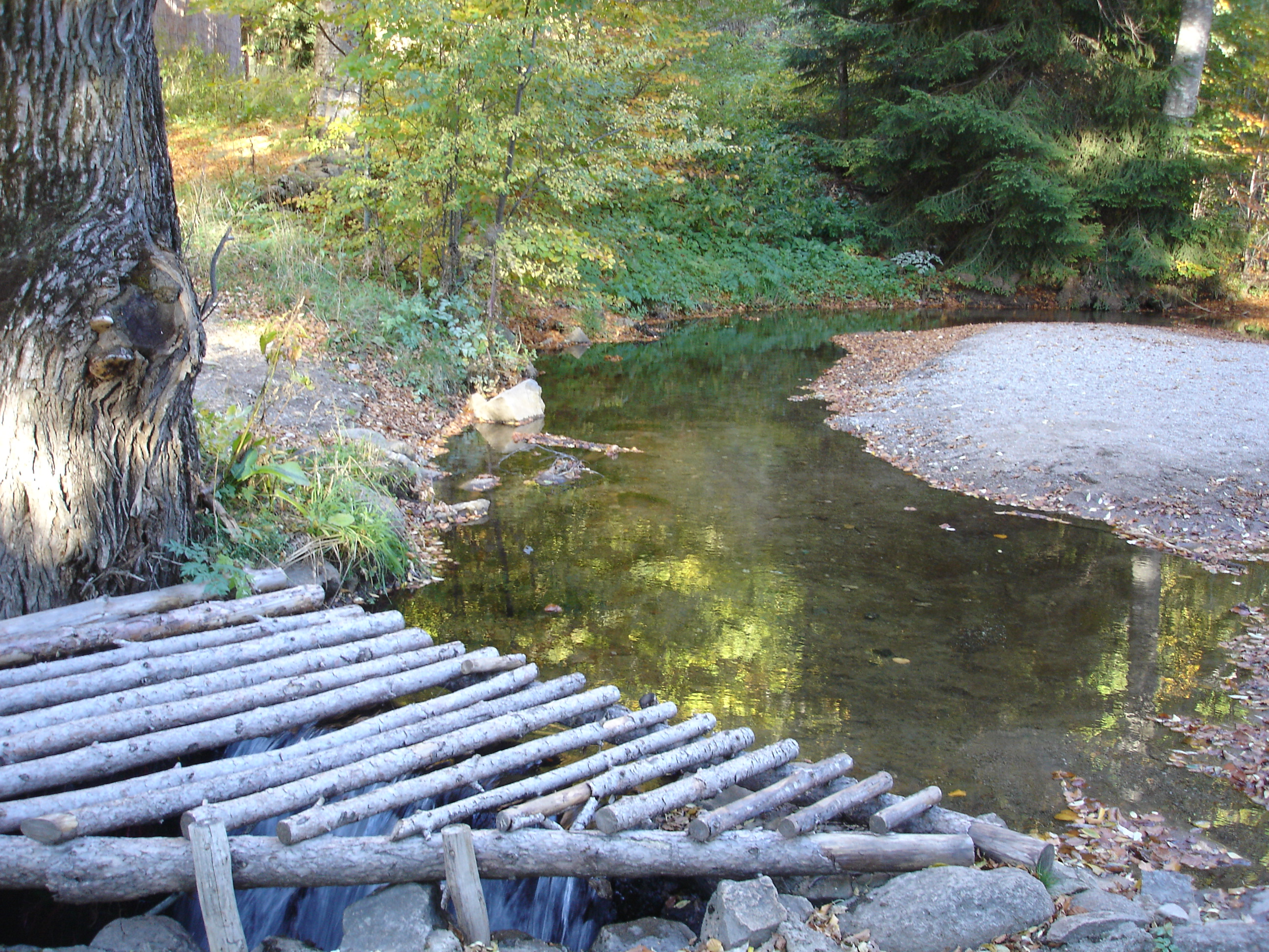 A Brooklet in Vitosha, Bulgaria